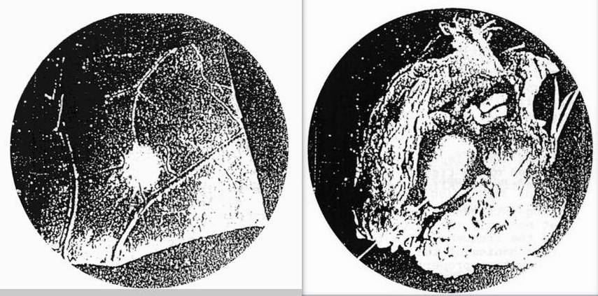 Left: Slice 3, suspension of spleen cells applied to the alantoid membrane of a chick embryo. Right: Slice 4, the spleen of the same chick embryo after 17 days. Note the specific induction of growth of the spleen. Harvey Good notes "Please excuse the quality of these above photographs. They were taken in 1916!".